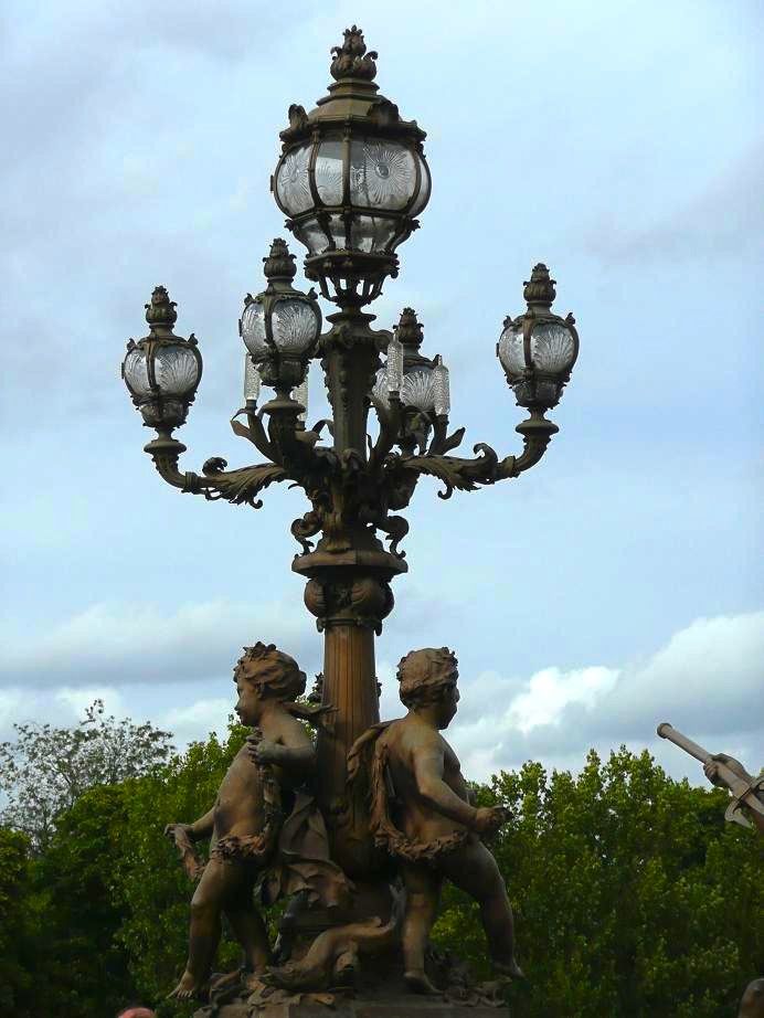 Lamp post of the Alexandre III bridge in Paris